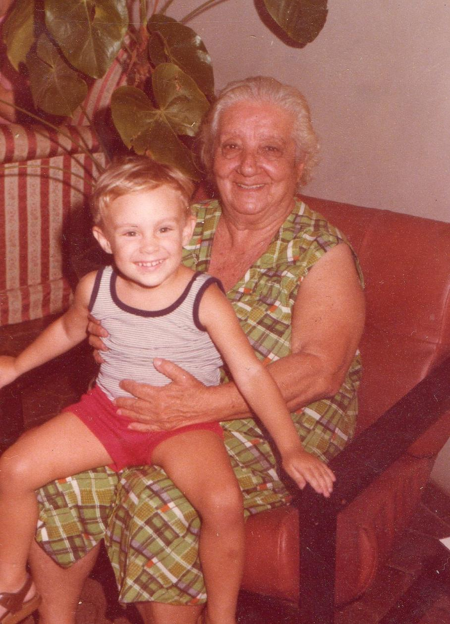 Public domain (donation)